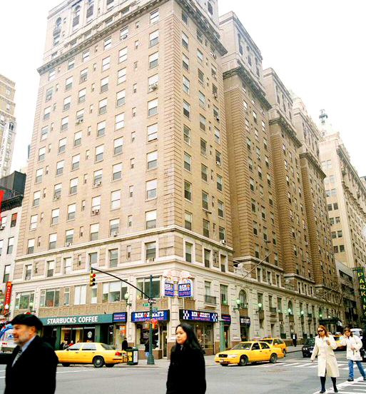 The Times Square Exterior 2